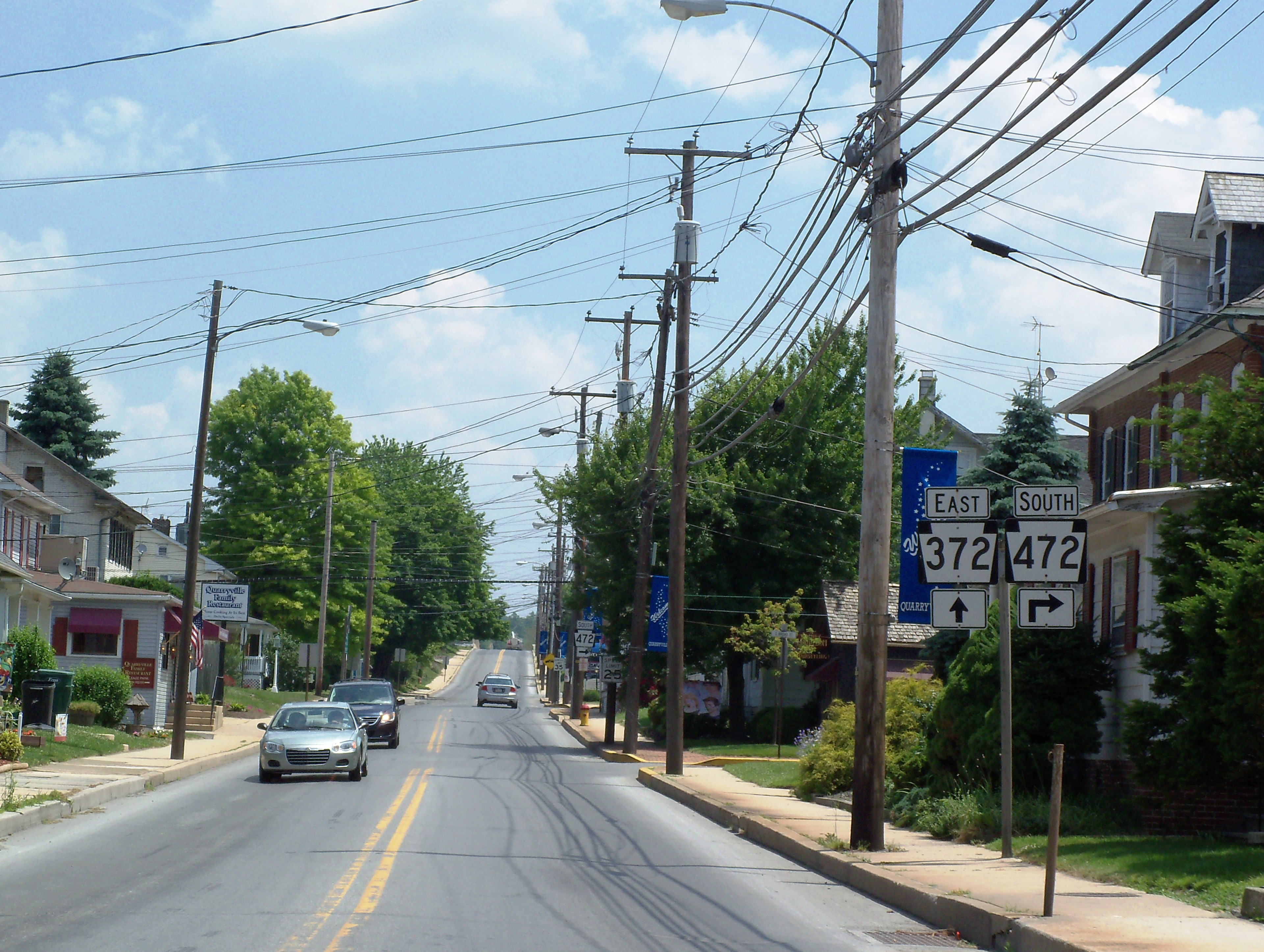 Eastbound Pennsylvania Route 372 (East State Street) as it approaches the beginning of southbound Pennsylvania Route 472 (South Lime Street) in Quarryville, Pennsylvania. The intersection with the northern terminus of PA 472 is two blocks from this view.